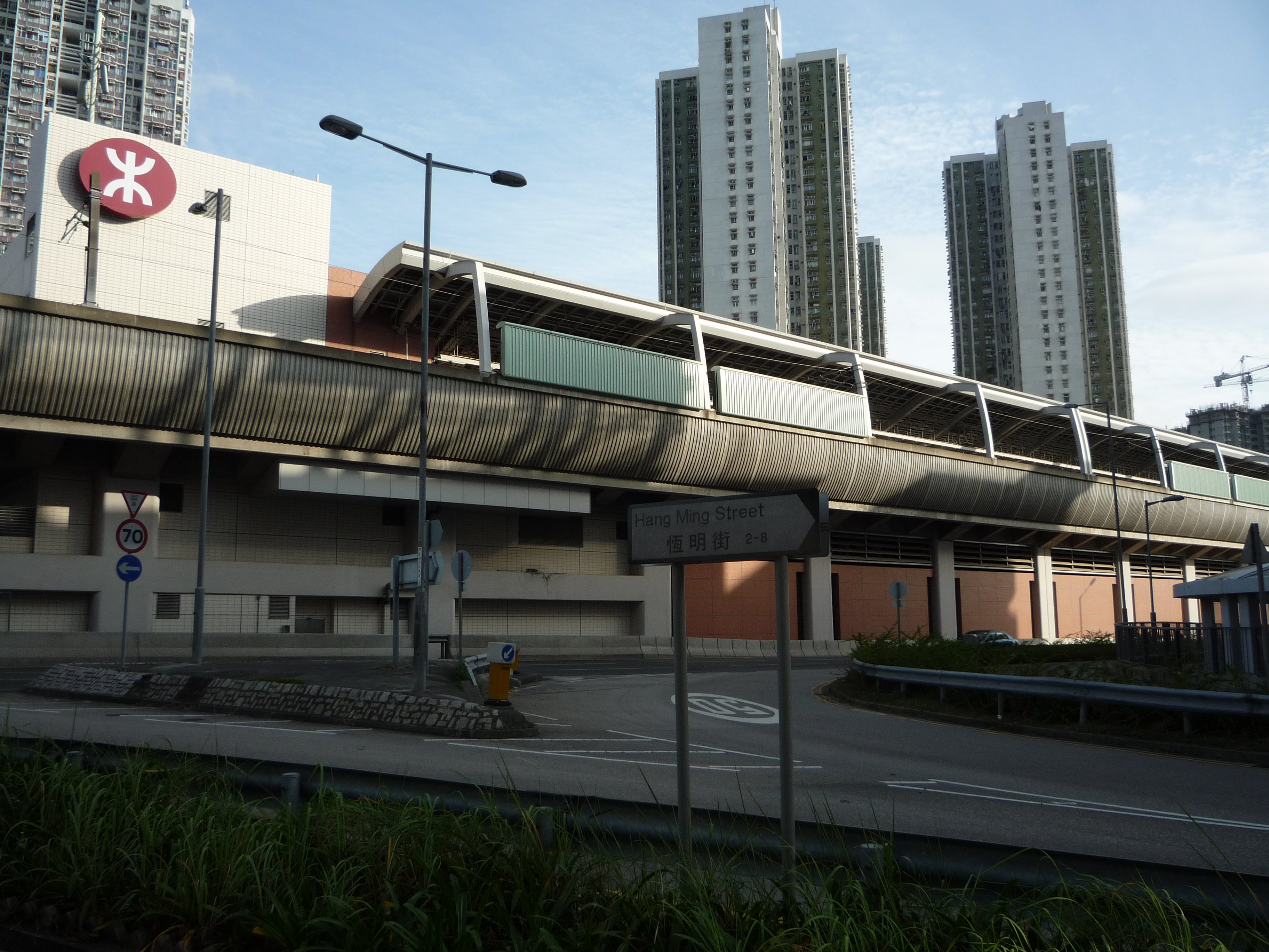 Appearance of MTR Heng On Station